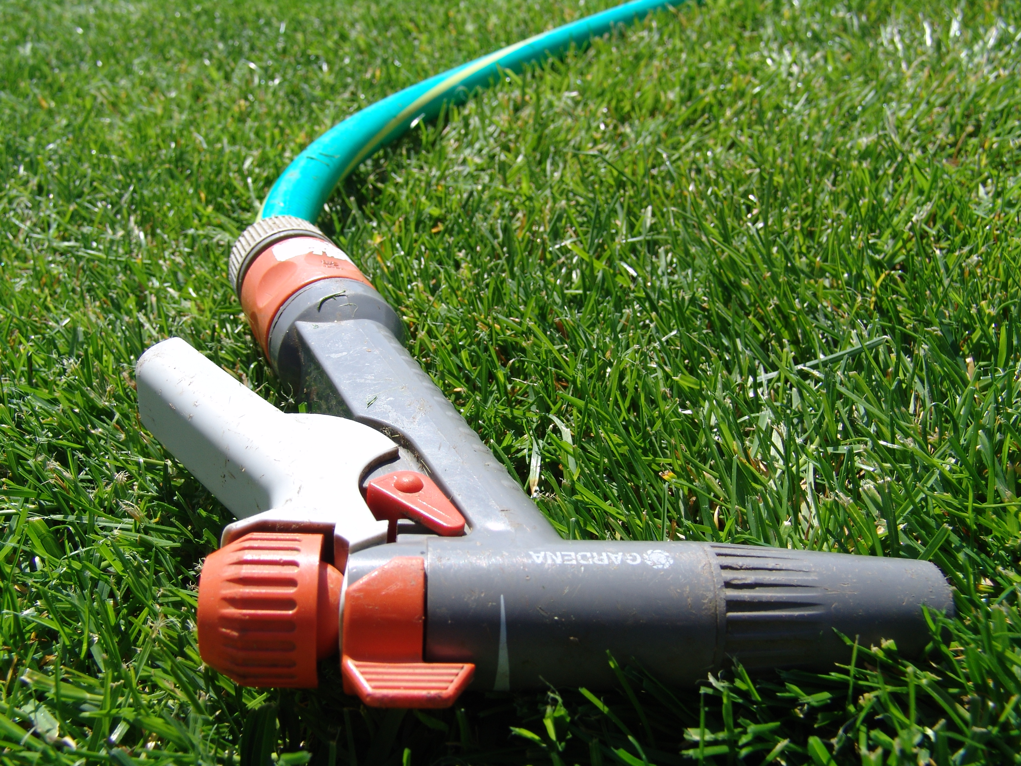 A Gardena garden hose pistol